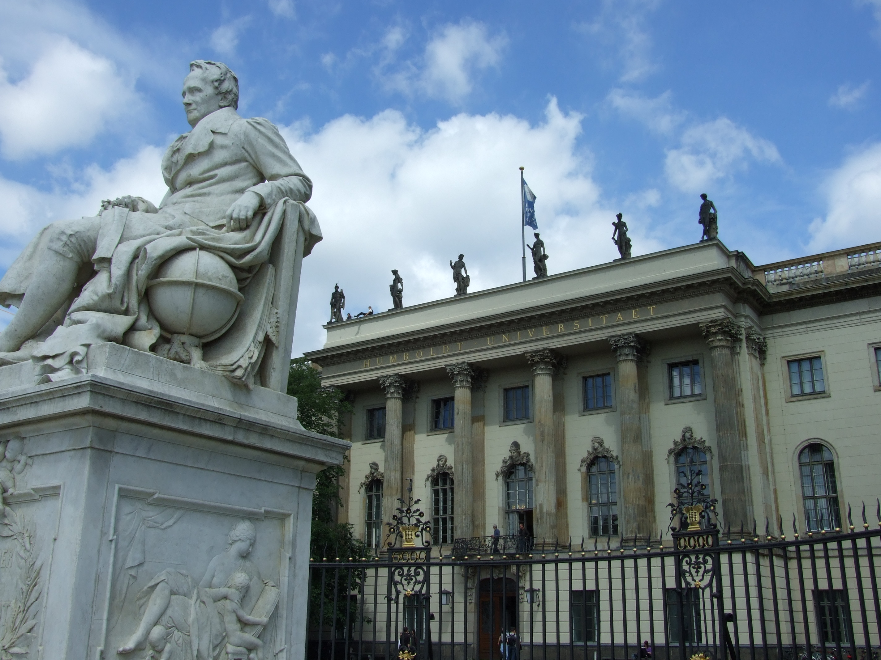 Main building of Humboldt university in Berlin, statue of one of the Humboldts brothers can be seen in the lefthelp